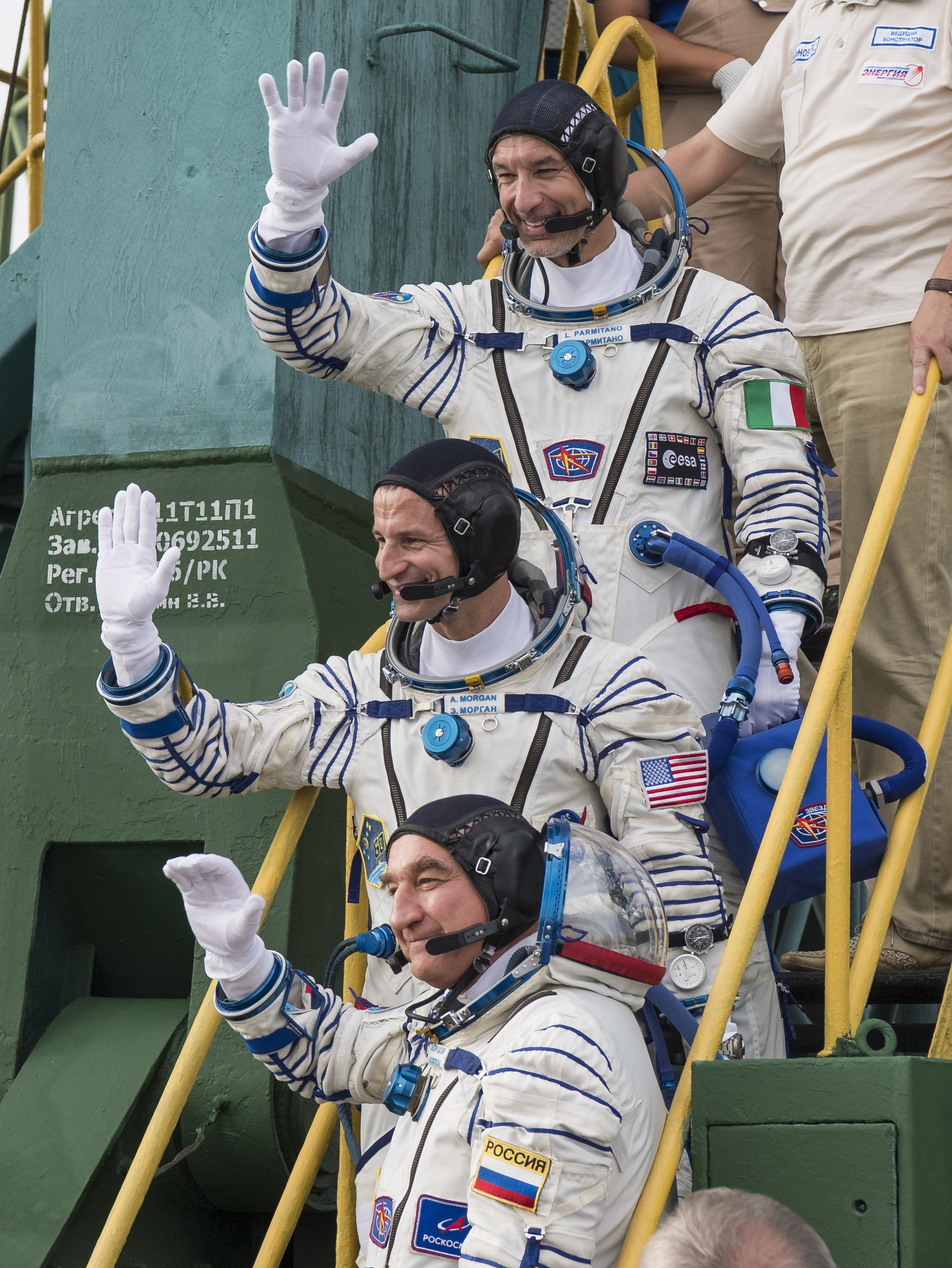 Expedition 60 flight engineer Luca Parmitano of ESA (European Space Agency), top, flight engineer Drew Morgan of NASA, middle, and Soyuz Commander Alexander Skvortsov of Roscosmos, bottom, wave farewell prior to boarding the Soyuz MS-13 spacecraft for launch, Saturday, July 20, 2019 at the Baikonur Cosmodrome in Kazakhstan. Parmitano, Morgan, and Skvortsov will join fellow Expedition 60 crew members Commander Alexey Ovchinin of Roscosmos and NASA flight engineers Nick Hague and Christina Koch, who have been aboard the International Space Station since March.